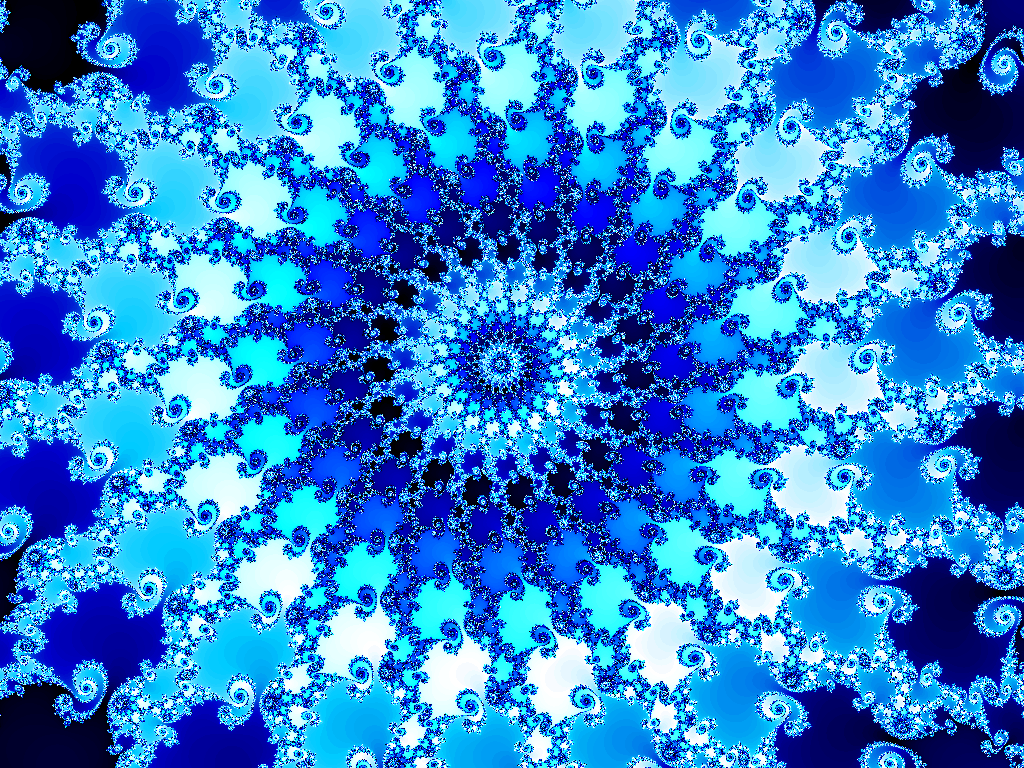 Image detail of the Mandelbrot set.